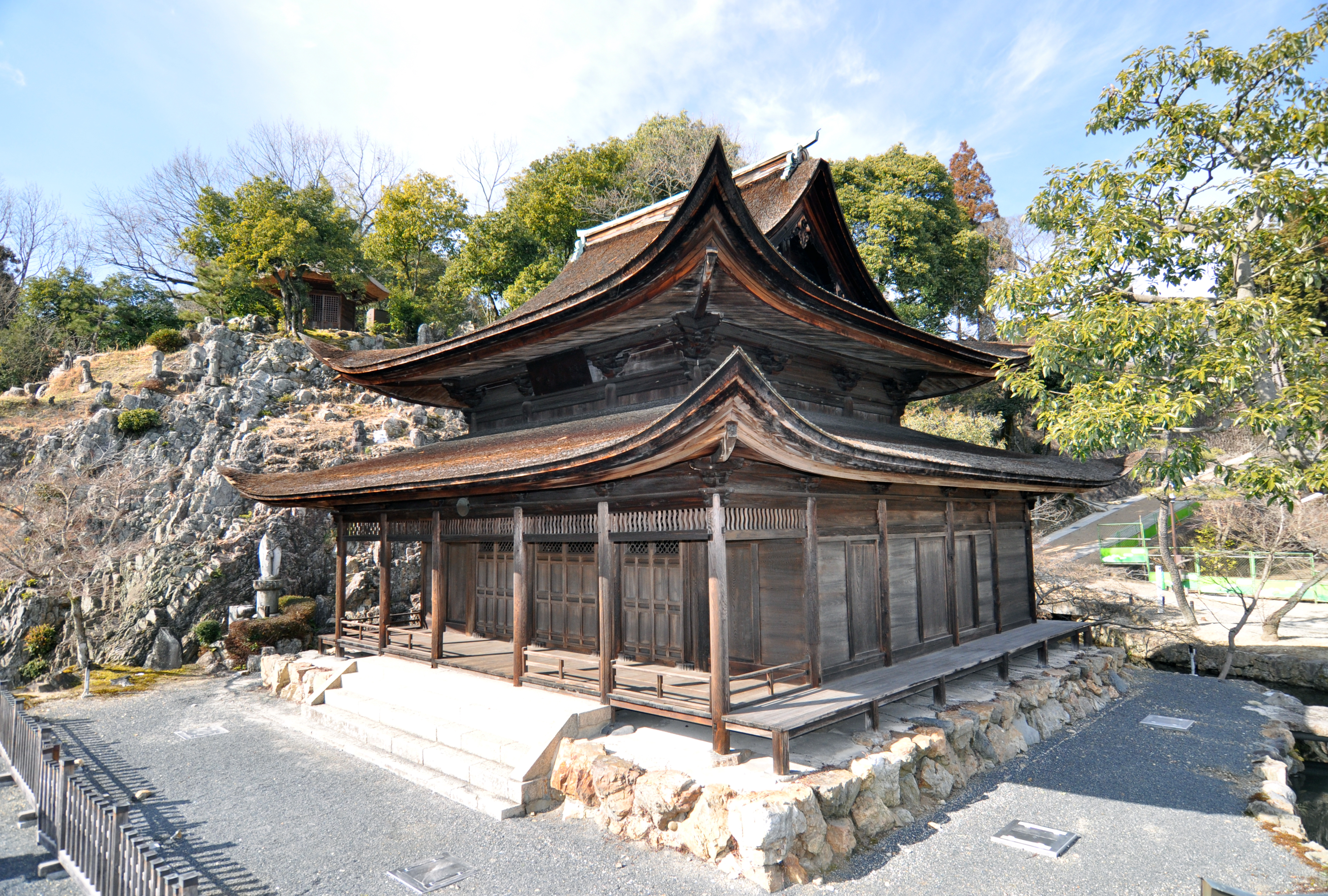 Kokeizan-kannondo